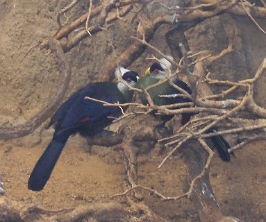 Species Tauraco leucolophus Family Musophagidae